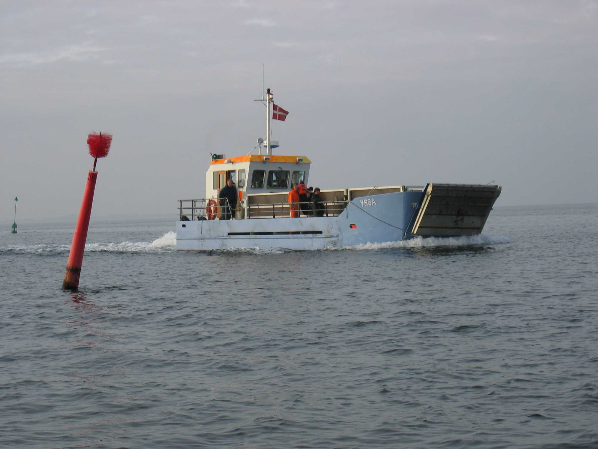 The animal ferry Yrsa